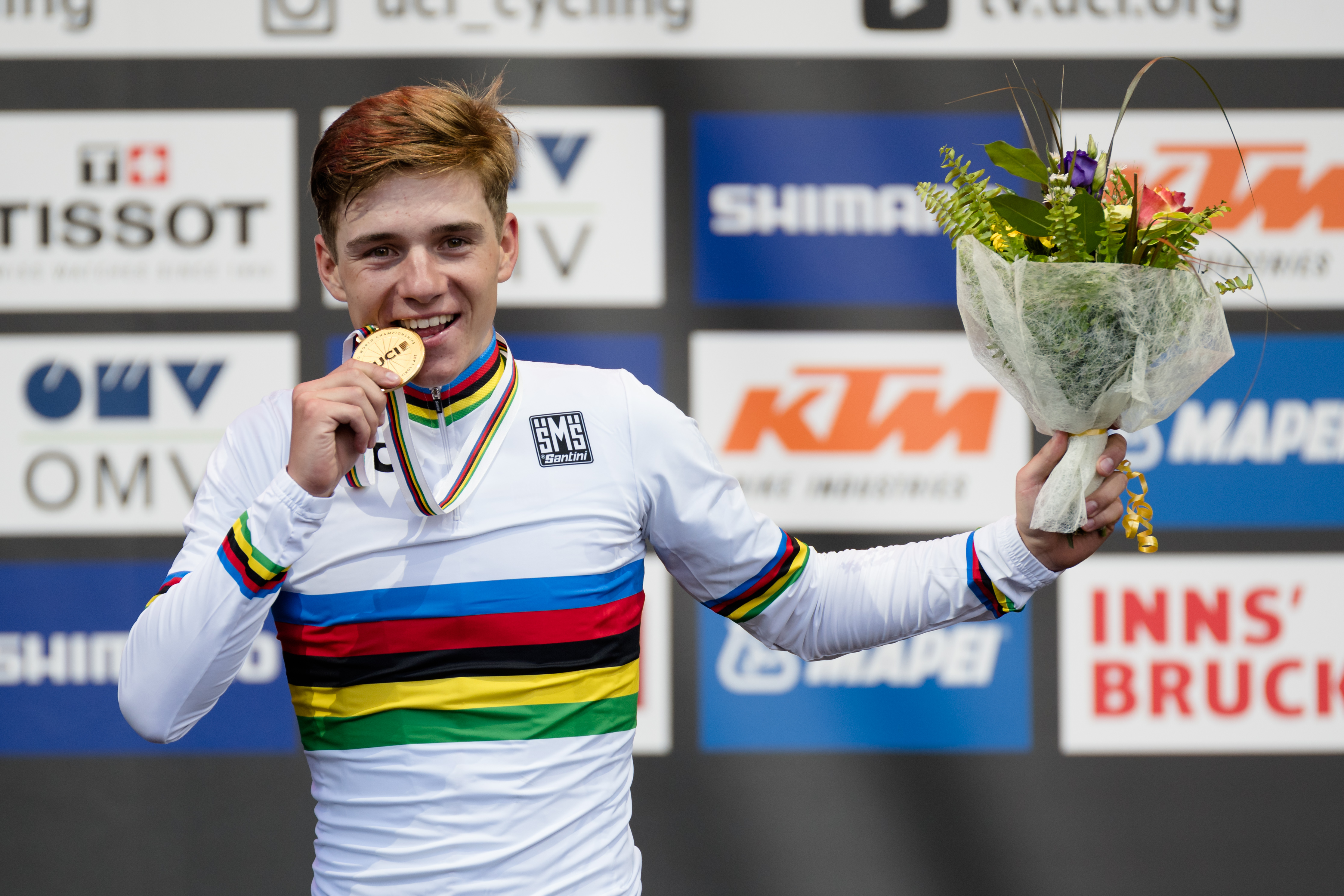 2018 UCI Road World Championships Innsbruck/Tirol Men Juniors Road Racel. Picture shows: Remco Evenepoel of Belgium